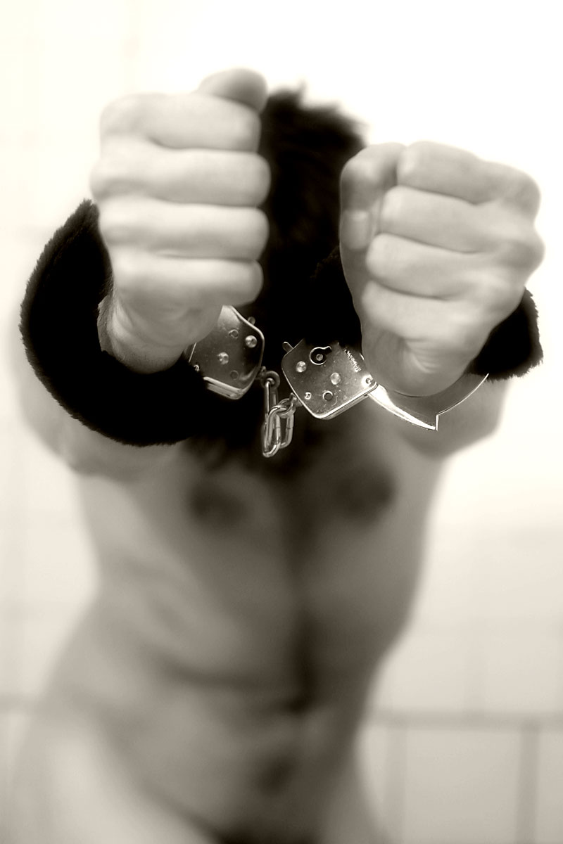 Flickr has restricted my account, and I'm trying to get better at the self-moderating thing. For those who do nudes, do you have any advice on flagging your own photos? How do you decide what is safe, moderate, or restricted? I seem to have no moderation. Ahem.